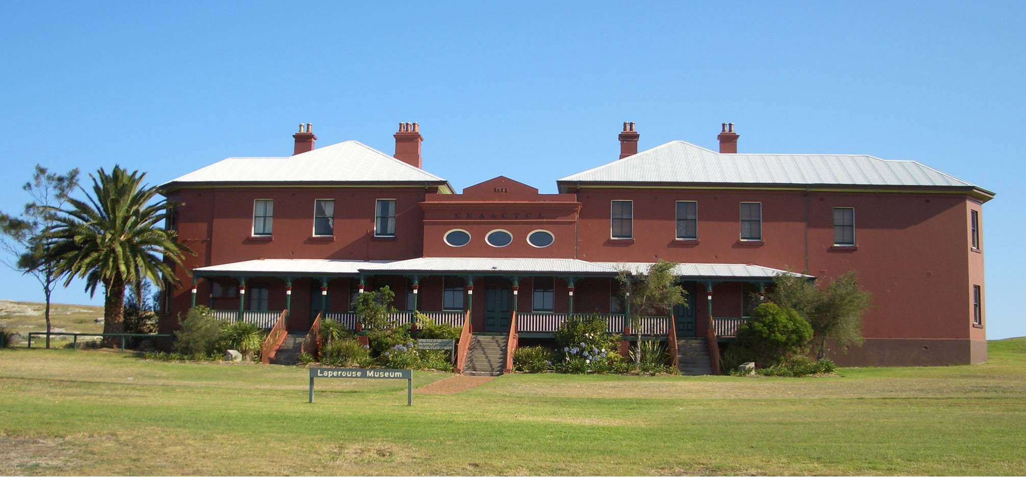 Museum, La Perouse, Sydney. In the 1950s, this building was a Salvation Army hostel for single mothers. This hostel was used by convicted pedophile Michael Guider and his mother and brother in 1954.